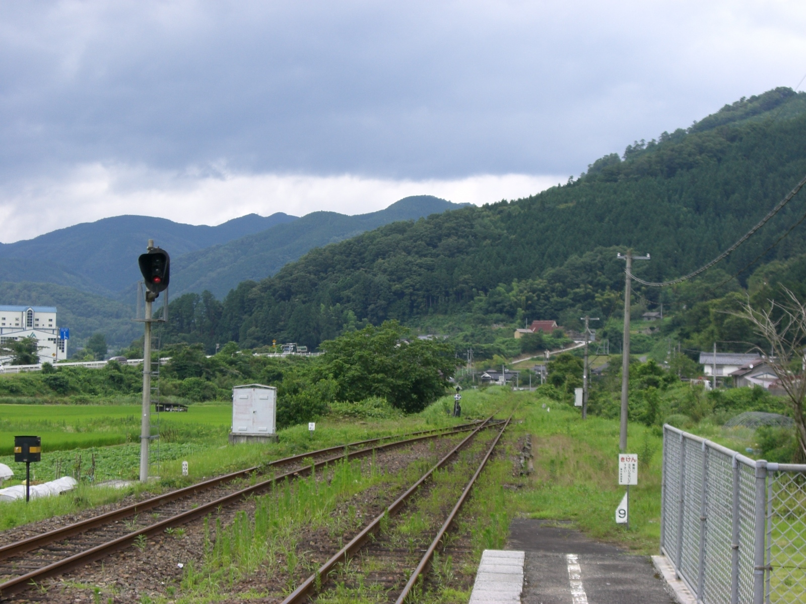 Looking toward Bitchū Kōjiro Station from the platform at Yagami Station in Niimi, Okayama Prefecture, Japan. Licensing Originally uploaded to the Japanese Wikipedia by Mitsuki-2368 under GFDL.